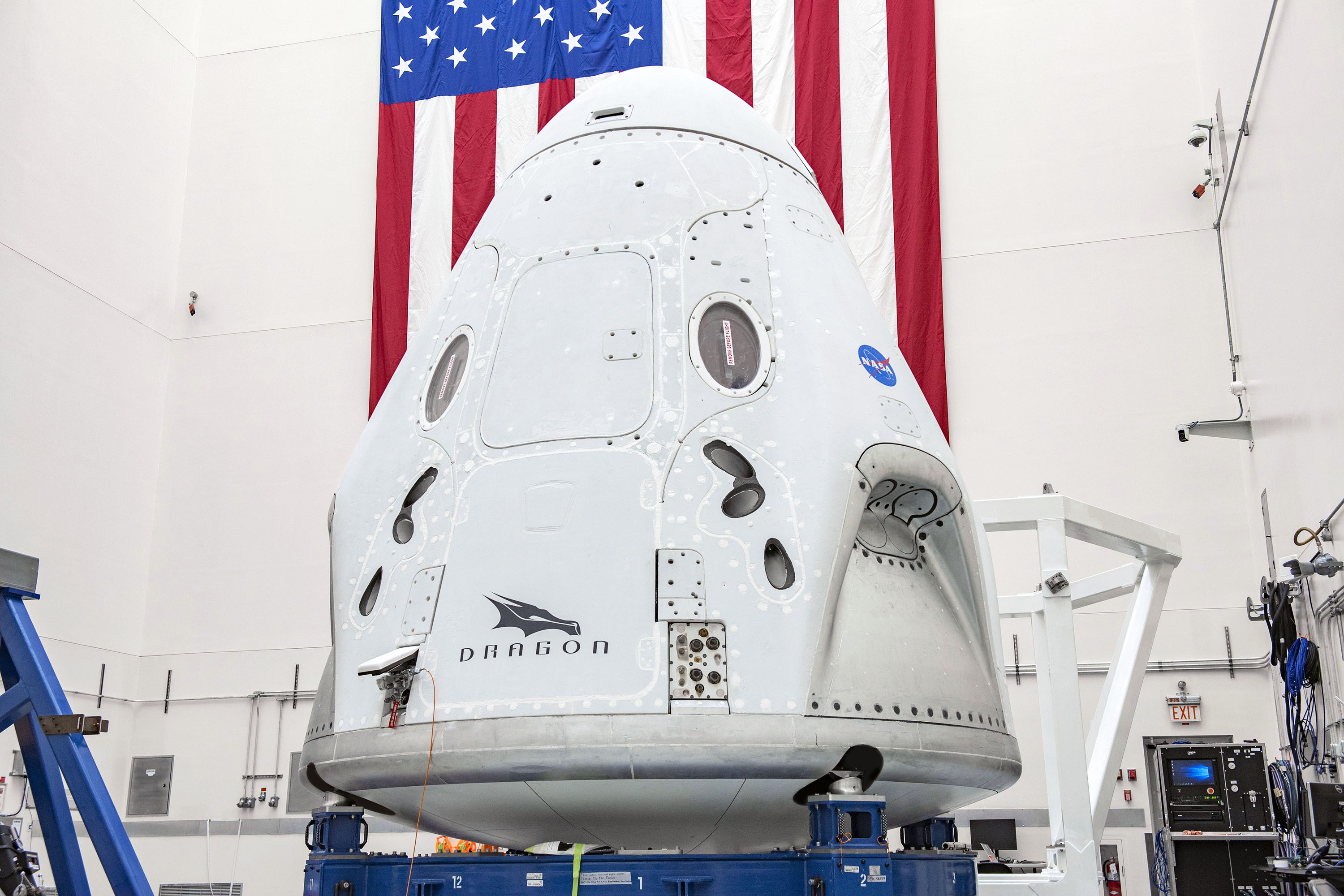 The SpaceX Crew Dragon spacecraft undergoes final processing at Cape Canaveral Air Force Station, Florida, in preparation for the Demo-2 launch with NASA astronauts Bob Behnken and Doug Hurley to the International Space Station for NASA’s Commercial Crew Program. Crew Dragon will carry Behnken and Hurley atop a Falcon 9 rocket, returning crew launches to the space station from U.S. soil for the first time since the Space Shuttle Program ended in 2011.